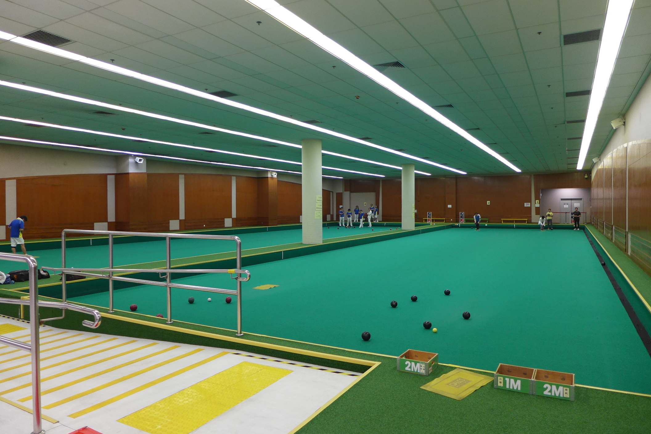 Island East Sports Centre Indoor Bowling Green